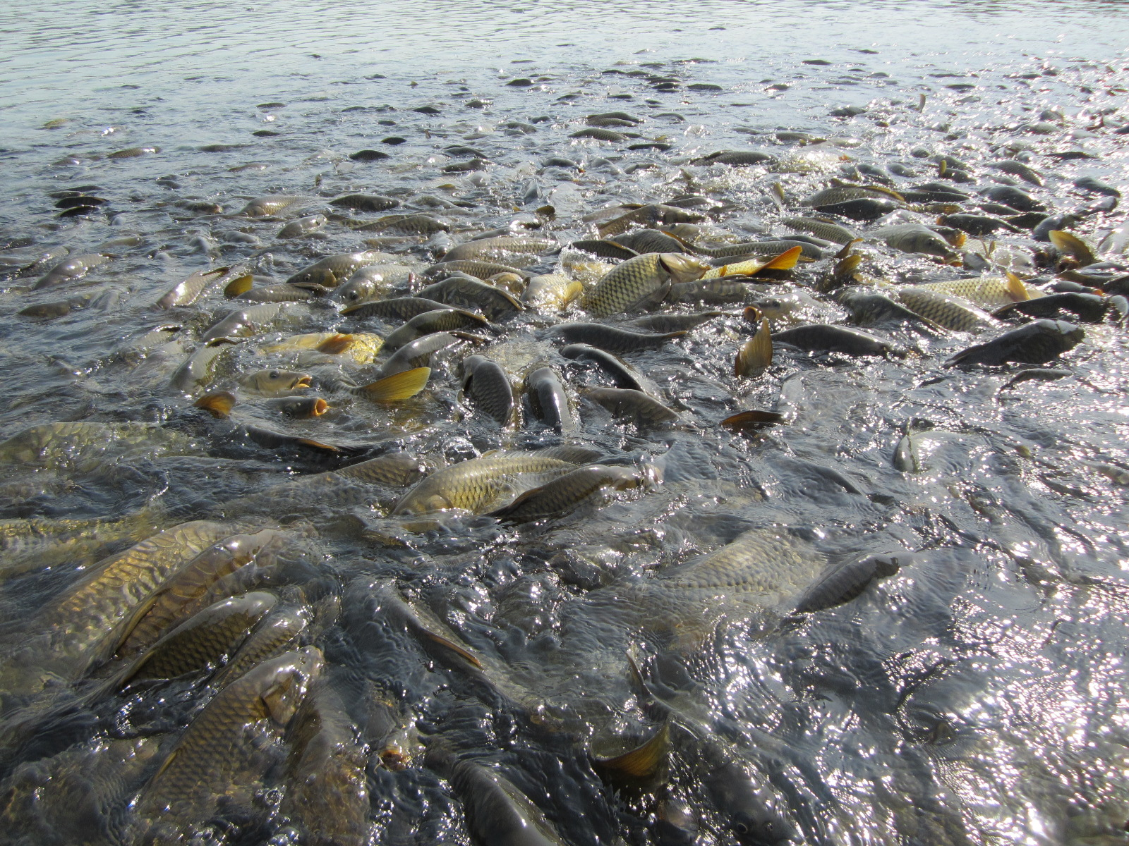 Mansar lake is full of Fishes and turtles which are not afraid of Humans